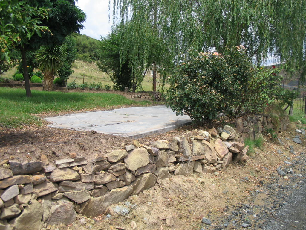 Septic tank in Lesotho (underground)